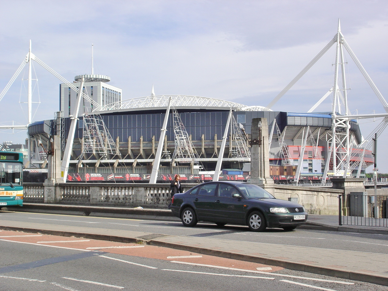 The Millennium Stadium (Stadiwm y Mileniwm) is the national stadium of Wales, Cardiff. It is the home of the Wales national rugby union team and also stages games of the Wales national football team, but is also host to many other large-scale events. It was built to host the 1999 Rugby World Cup